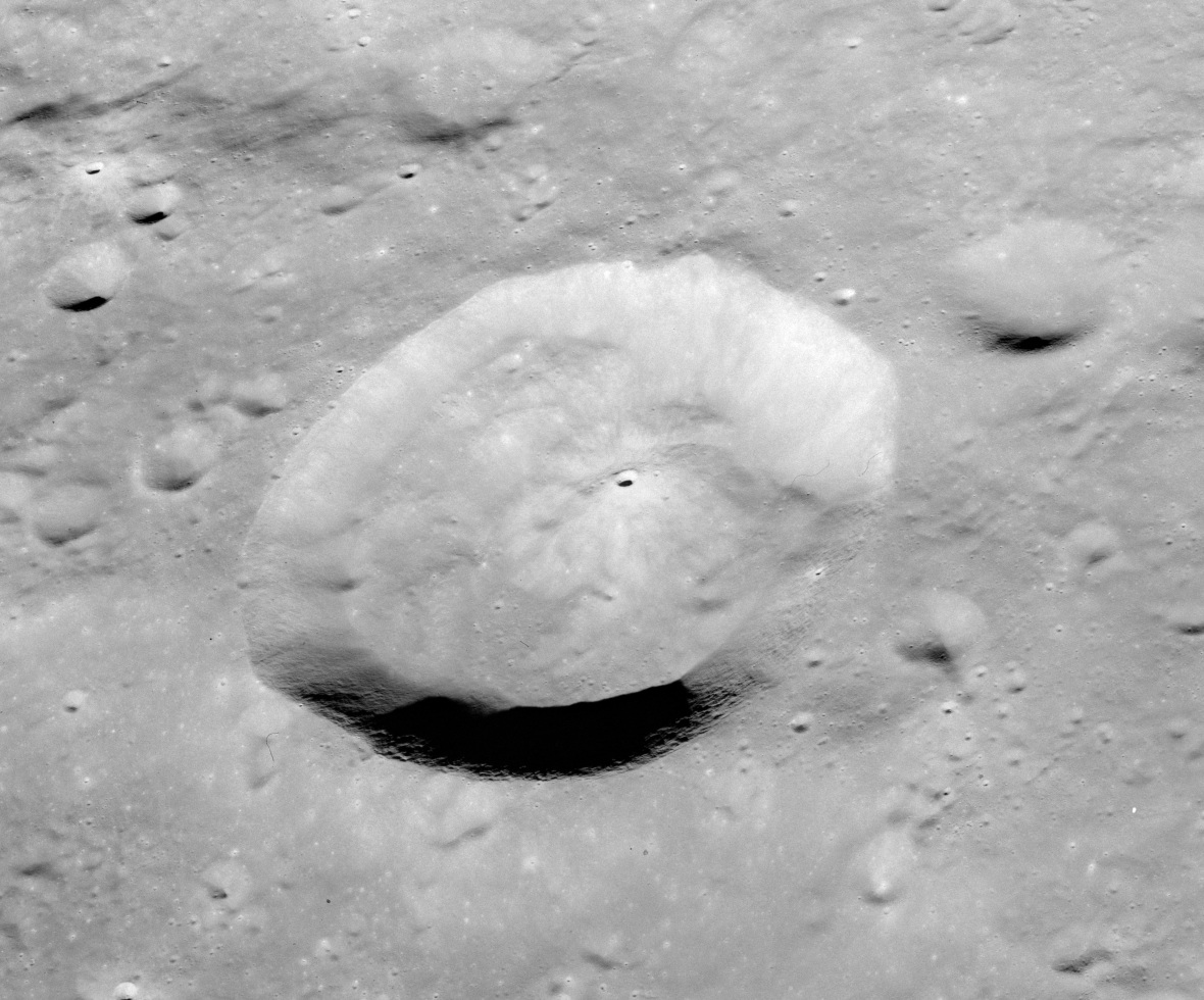 Oblique view of Kant, on the moon, facing west.